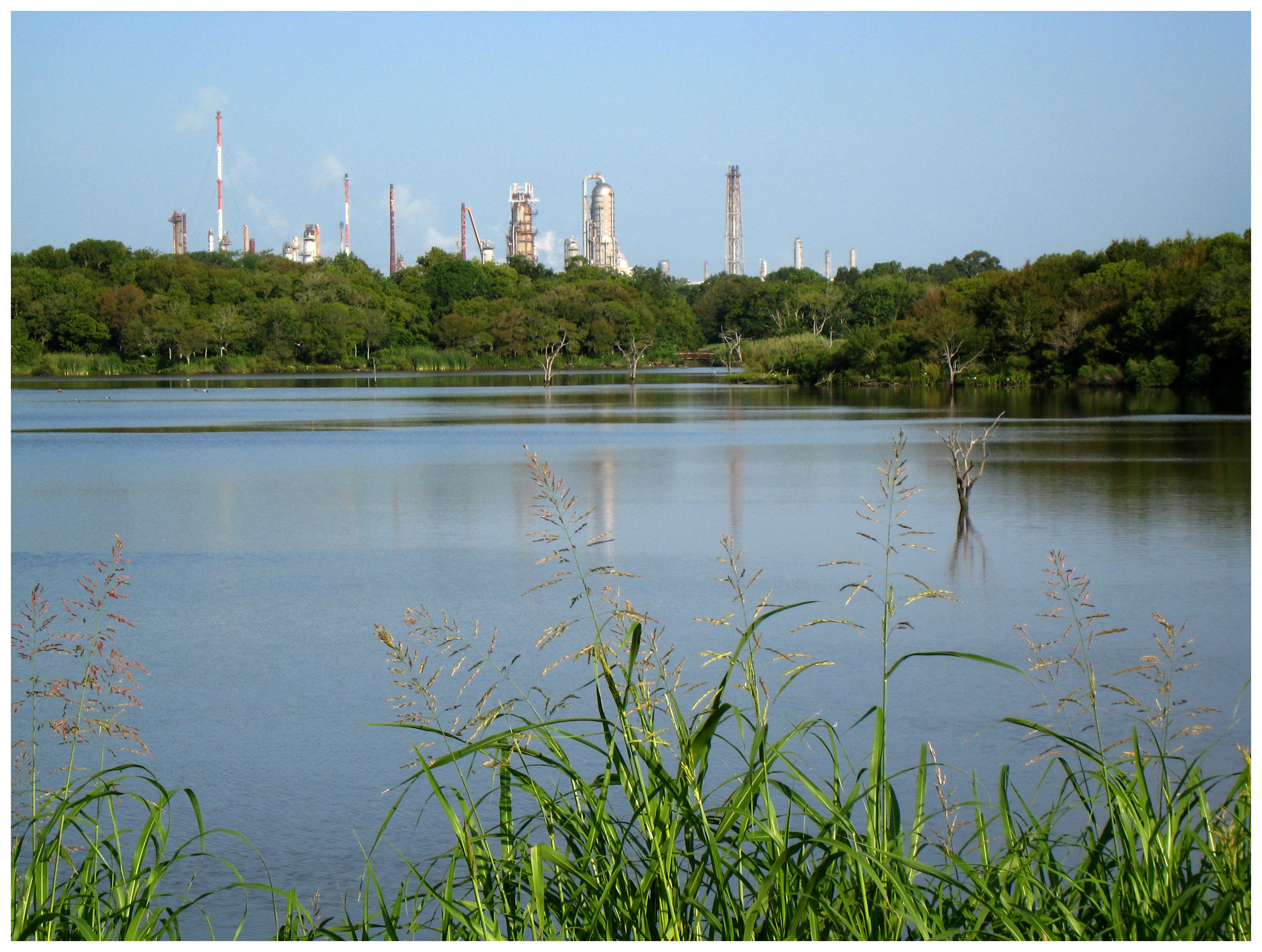 Goose Creek Stream in Baytown Texas with Exxon Mobil on the horizon.